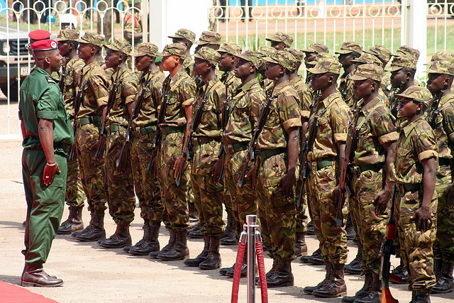 The Security Sector Reform seminar was held in Bangui from 14th to 17th April. During these four days all major actors of the security sector discussed the country's situation and suggested a series of reforms to improve security in the Central African Republic. In a final speech, the President and the Government of the CAR committed to follow the recommendations of the seminar and received the support of bilateral and international partners. Credits: Brice Blondel for HDPTCAR